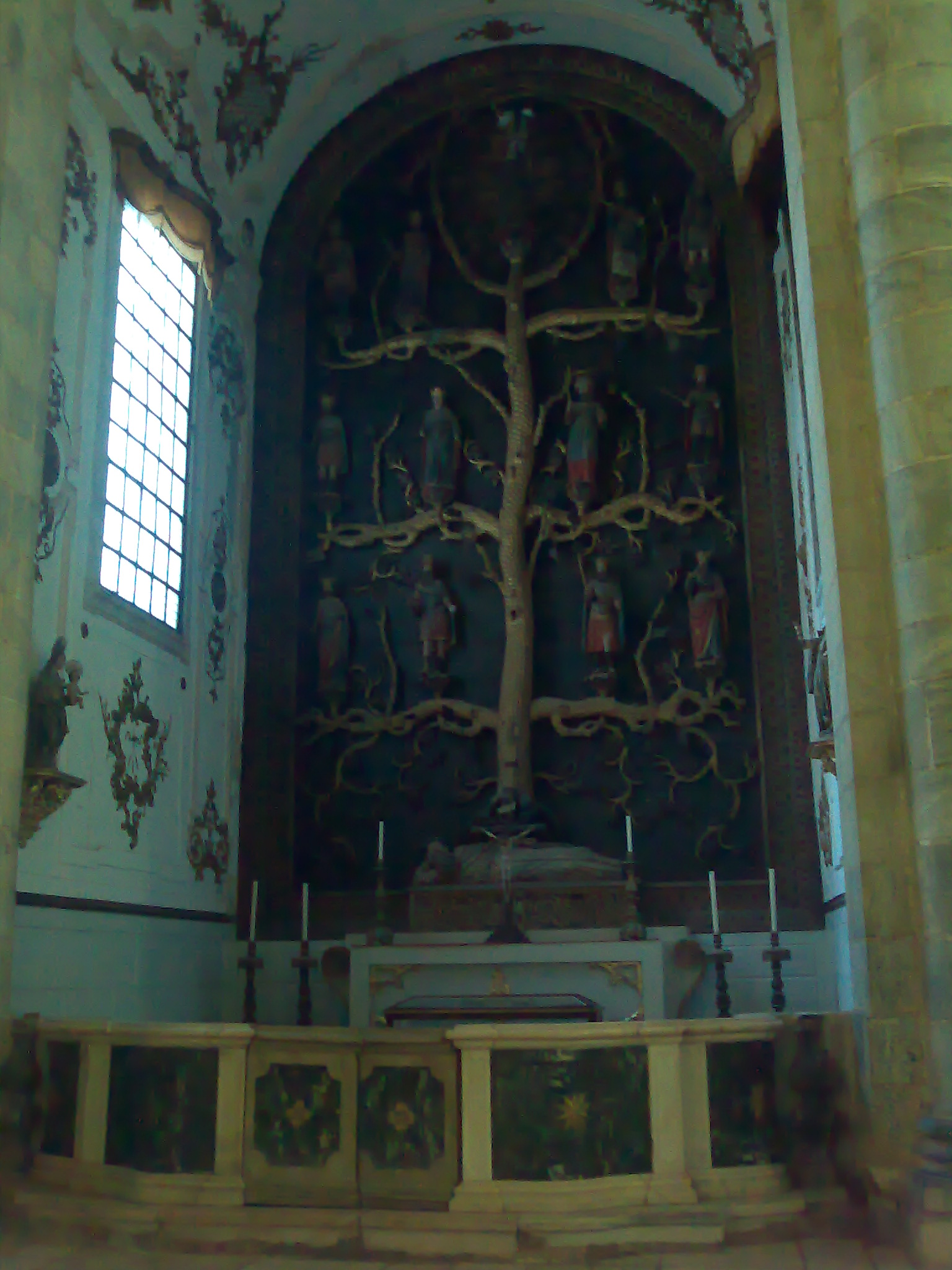 Church of Santa Maria do Castelo (Olivença)